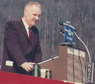 Carl D. Perkins, US Representative from Kentucky